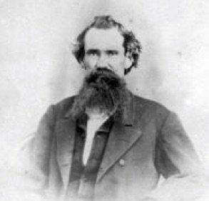 Picture of Alanson W. Nightingill from the Nevada State Archive.